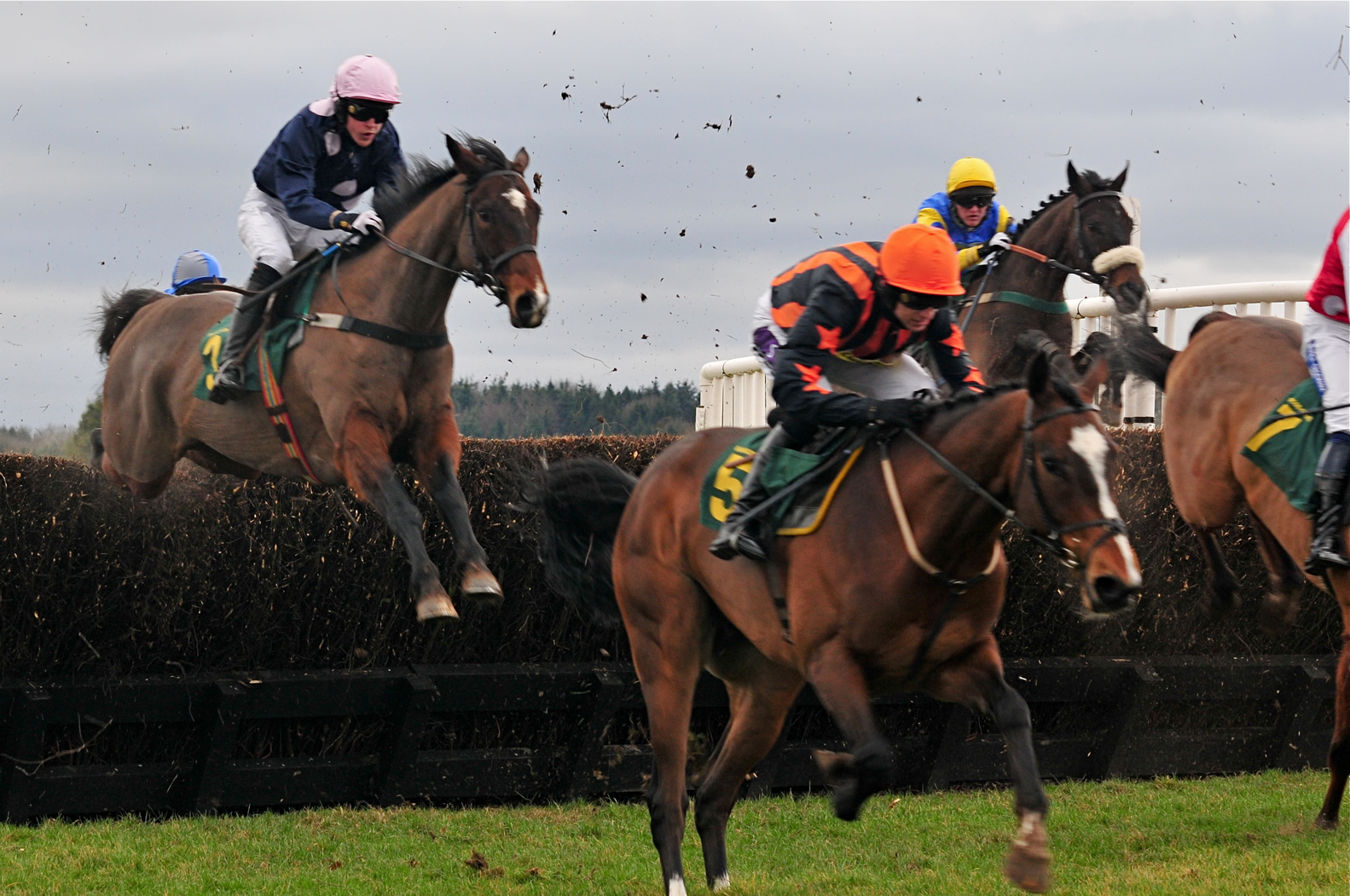 Bangor on Dee horse racing ~ National Hunt